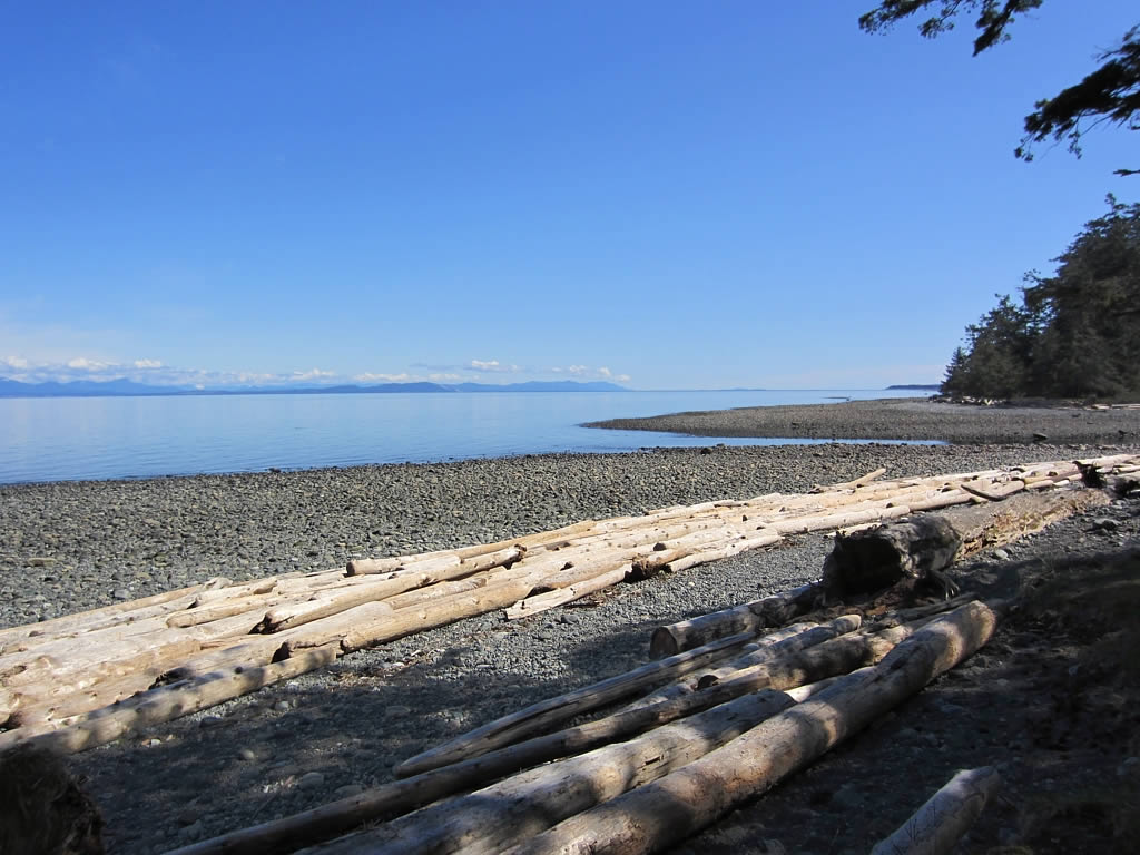 Strait of Georgia at Kitty Coleman Beach Provincial Park near Courtenay, BC, Canada